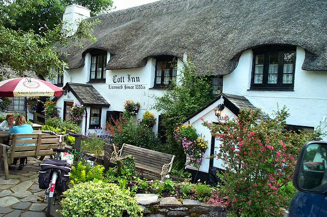 Cott Inn - Dartington. The thatched Cott Inn has been going since 1320 and still retains a medieval feel despite being a thoroughly up-to-date eating and drinking place. The heavily beamed bar dominates the pub. Lots of brass, low wooden ceilings and an inglenook fire.